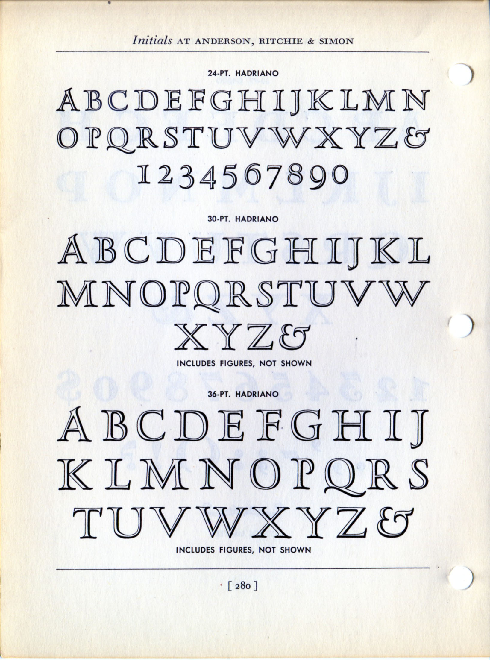 The Goudy font Hadriano Title in a specimen book